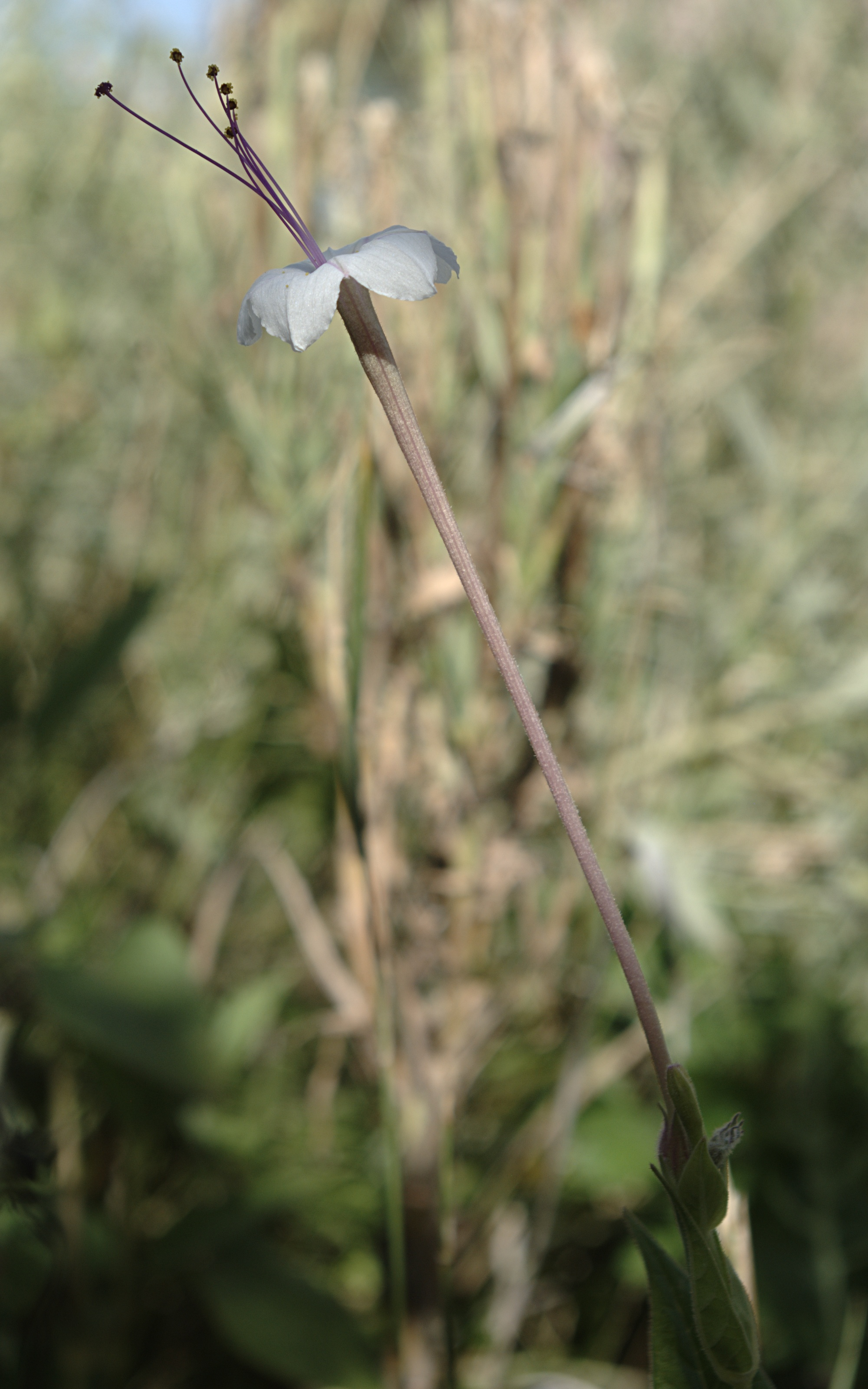 Flower of Mirabilis longiflora, long-flowered four-o'clock, my garden, Española, New Mexico.